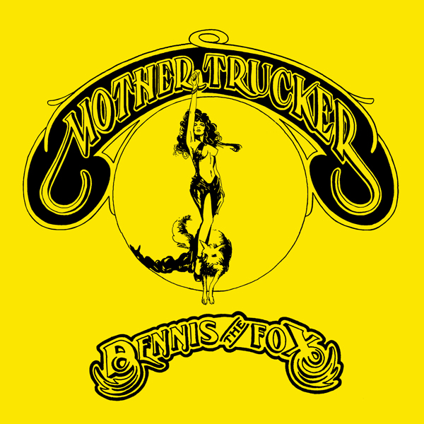 Dennis the Fox - Front Cover of LP "Mothertrucker"